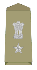 Rank insignia of Superintendent of Police (State Police Officer)